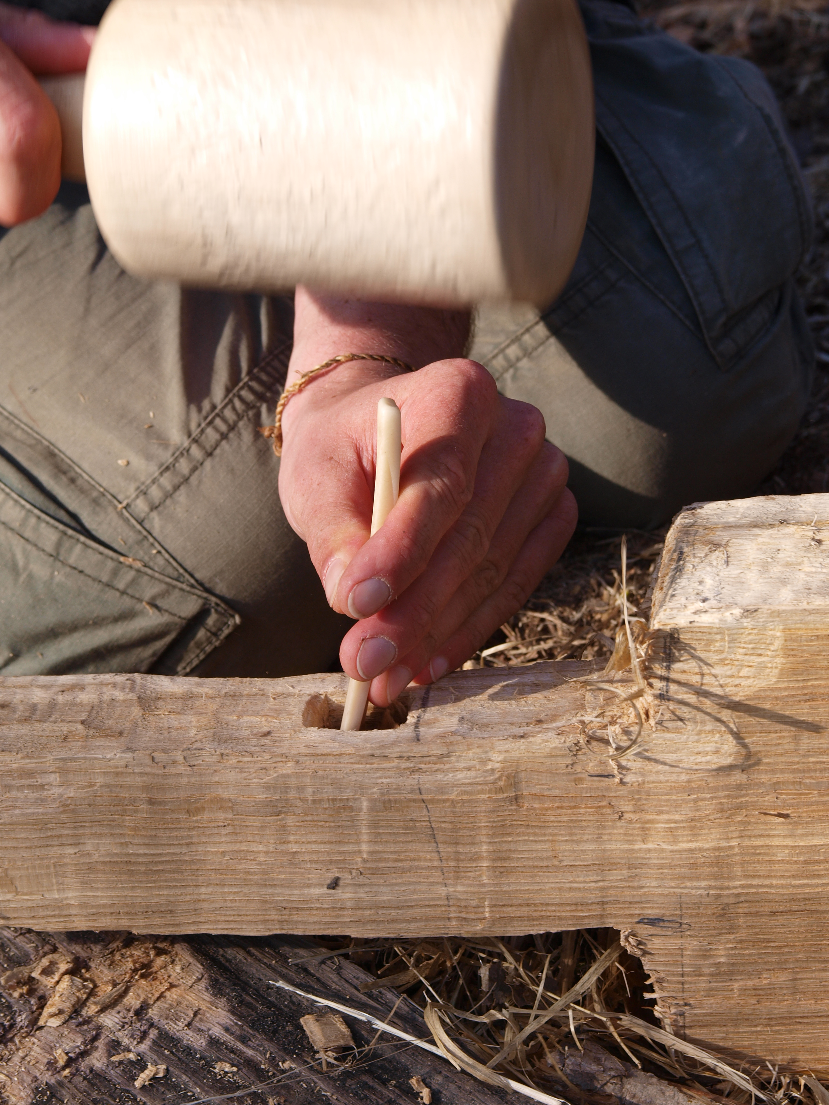 Small reconstructed neolithic bone chisle in action at at Ergersheim Experiments 2014.